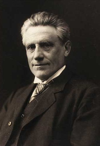 Frants Peter William Buhl (1850-1932), Danish theologian